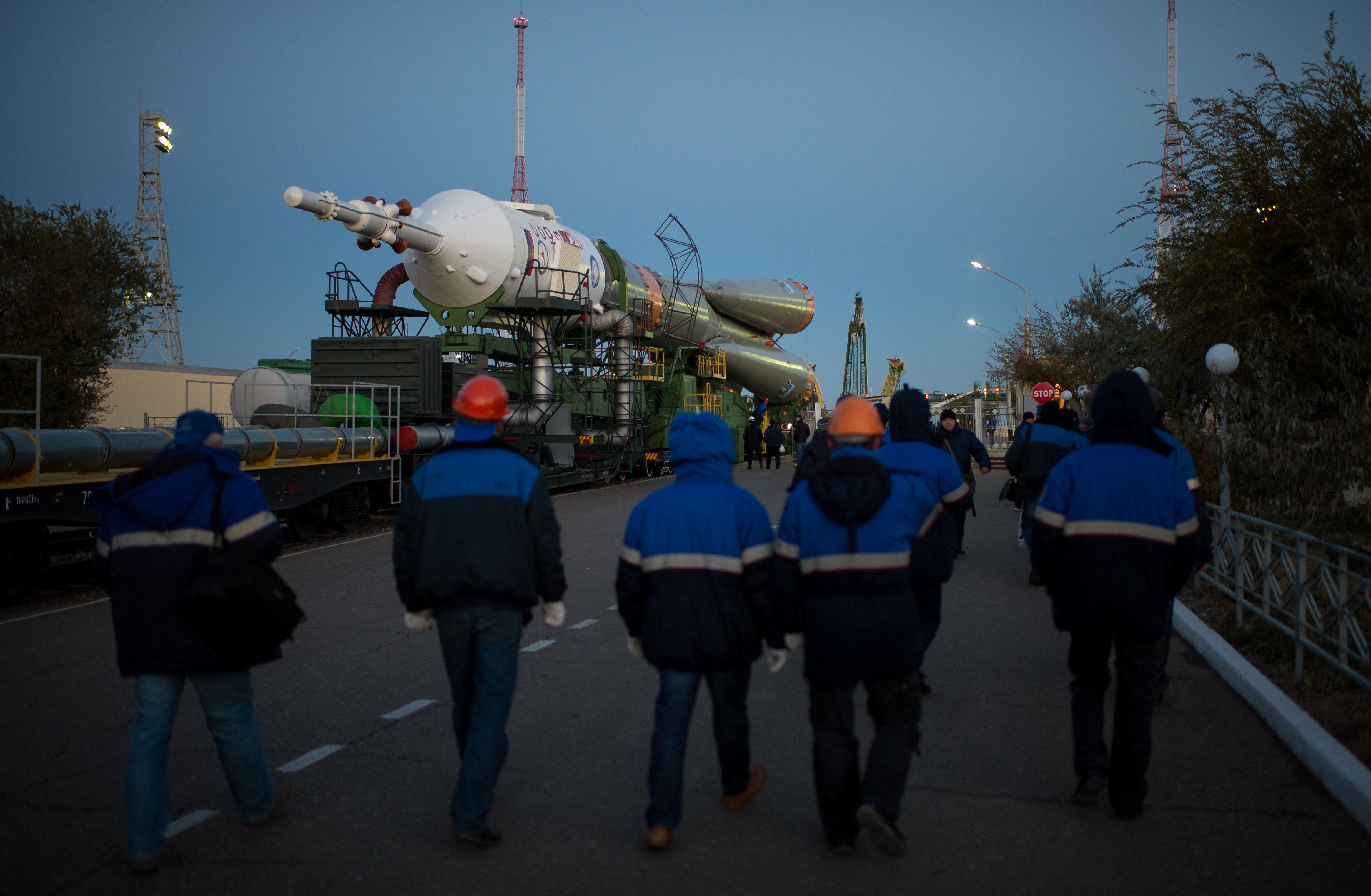 Workers walk towards Pad 31 as the Soyuz MS-02 spacecraft is rolled out by train to the launch pad at the Baikonur Cosmodrome, Kazakhstan, Sunday, Oct. 16, 2016. Expedition 49 flight engineer Shane Kimbrough of NASA, Soyuz commander Sergey Ryzhikov of Roscosmos, and flight engineer Andrey Borisenko of Roscosmos are scheduled to launch from the Baikonur Cosmodrome in Kazakhstan on Oct. 19.